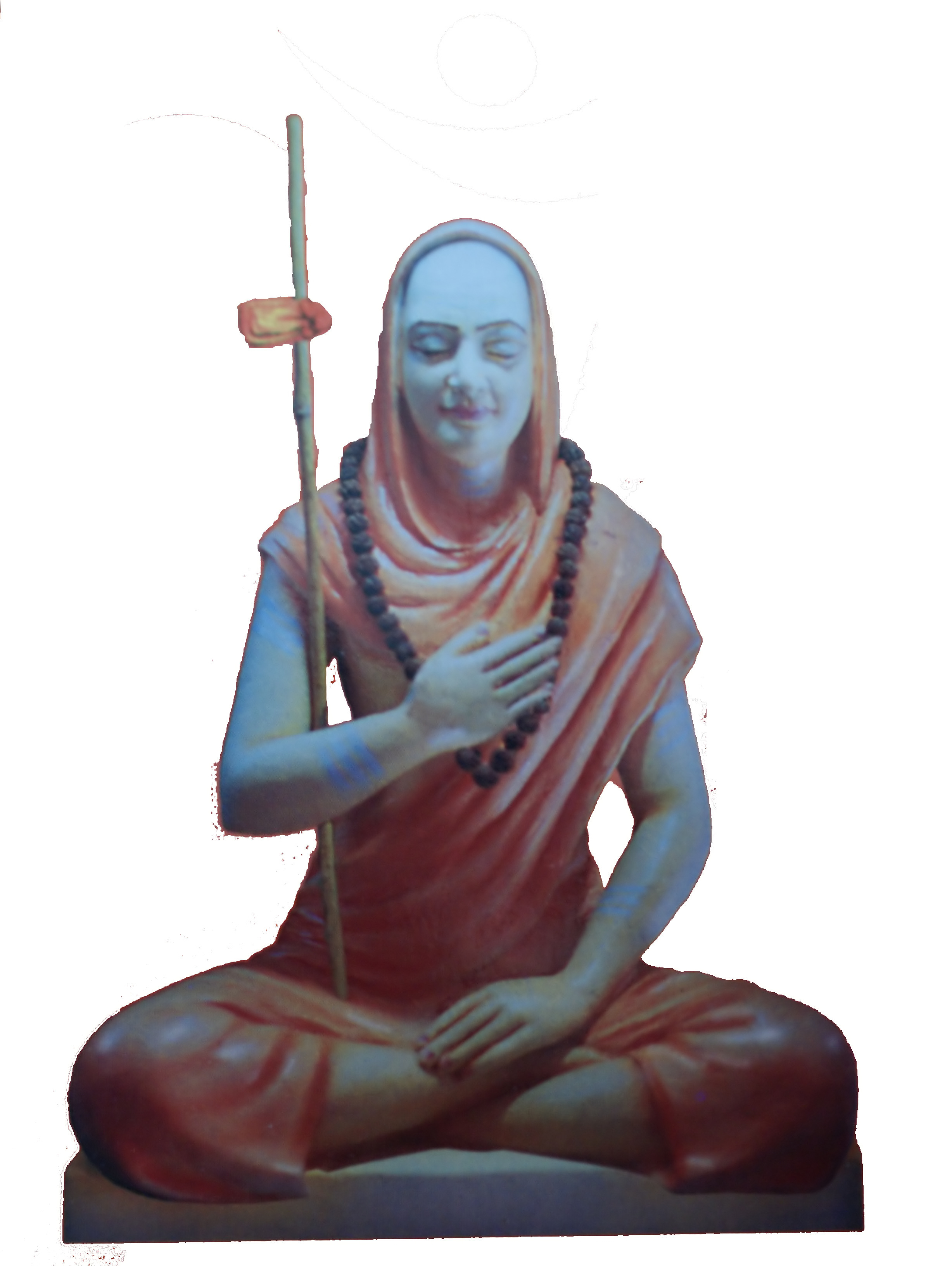 Shri Gaudapada Statue Picture